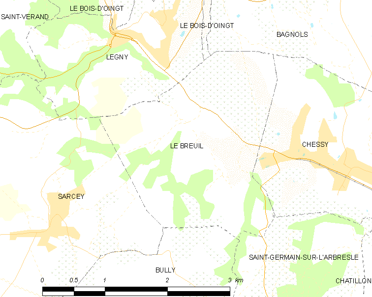 Map of French municipality